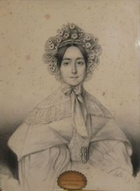 French poetess and youngest daughter of the "Iron Marshal", Louis Nicolas Davout (1770-1823), Adélaïde-Louise d'Eckmühl de Blocqueville (1815-1892)